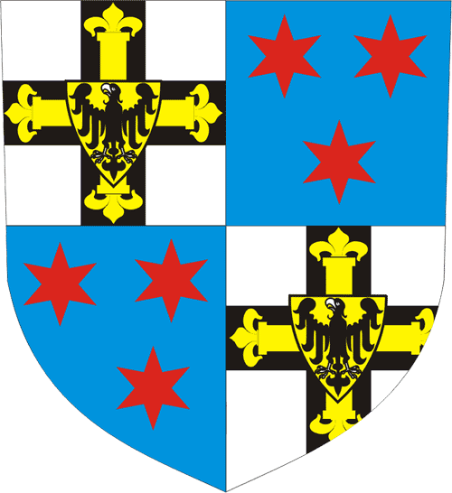 Teutonic Order - Coat of Arms of the Grandmaster Michael Küchmeister